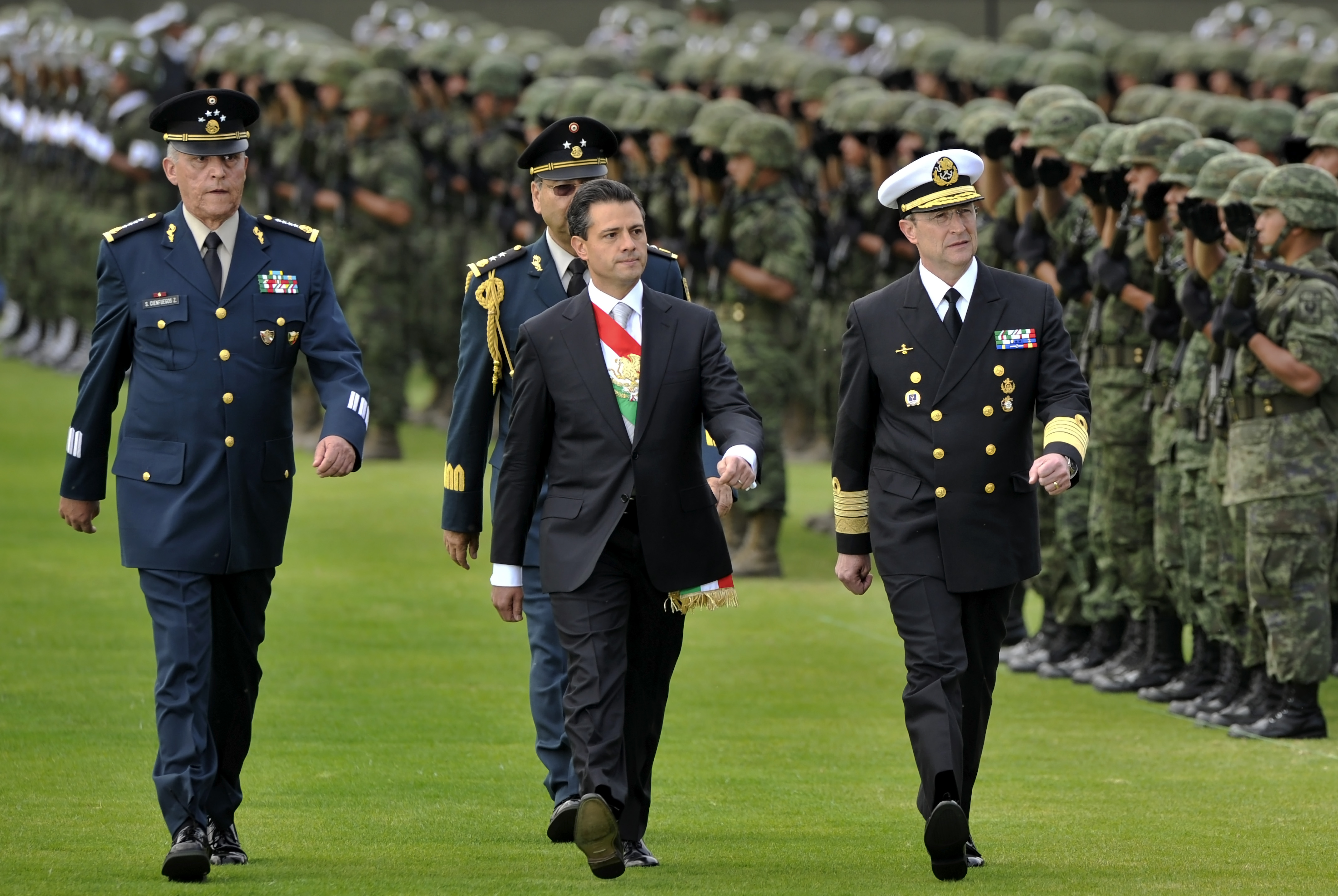 Enrique Peña Nieto inspects a parade of the Mexican Armed Forces. Shown on Nieto's left is General Salvador Cienfuegos Zepeda.